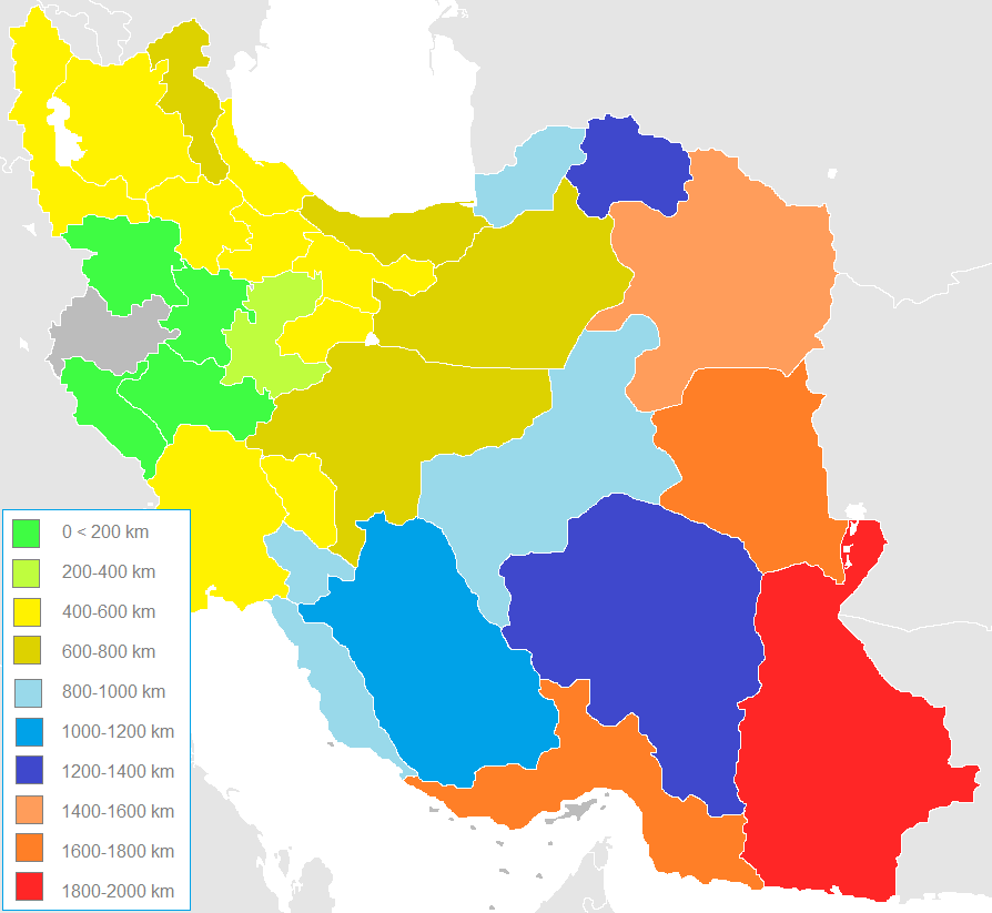 kermanshah distance to other cities in iran. information by Google Maps